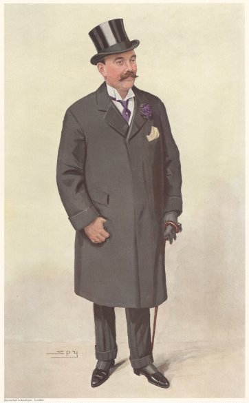 Caricature of GM Baring. Caption read "Isle of Wight".